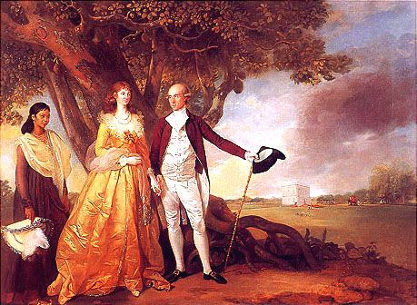 Warren Hastings with his Wife Marian in their Garden at, Alipore circa 1784-7, Oil on canvas (C1311) by Johann Zoffany. Warren Hastings, Governor General of Bengal 1774-1785, commissioned Zoffany to prepare several portraits. In contrast to the exuberant portrait of Marian Hastings, this intimate conversation piece is tinged with sadness, as Hasting's beloved wife was soon to leave for Europe.